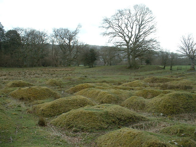 Castell Collen Roman Fort The earthworks of the fort are still very visible and impressively extensive.